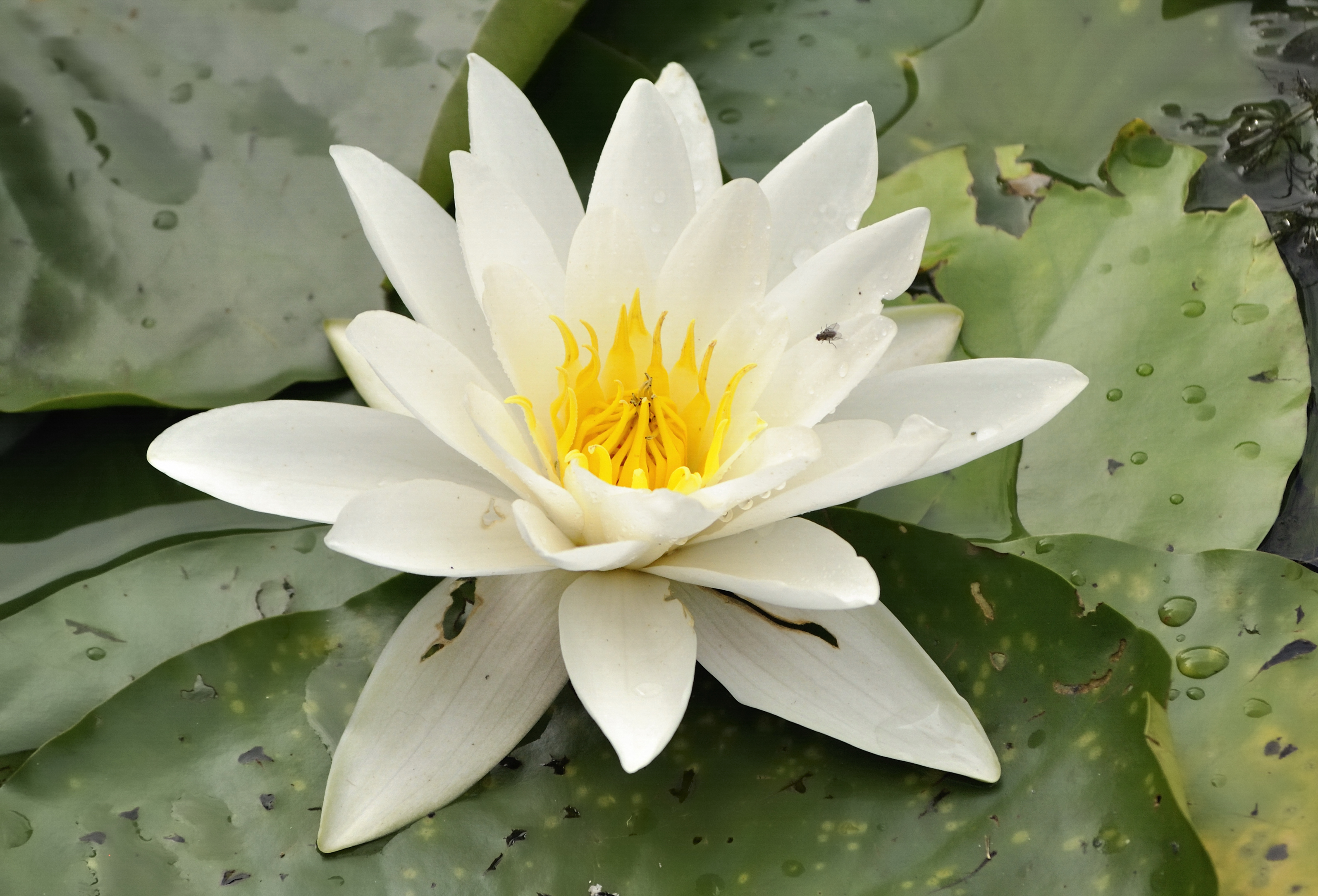 Picture taken in Duisburg during summer meetup. nymphaea alba.